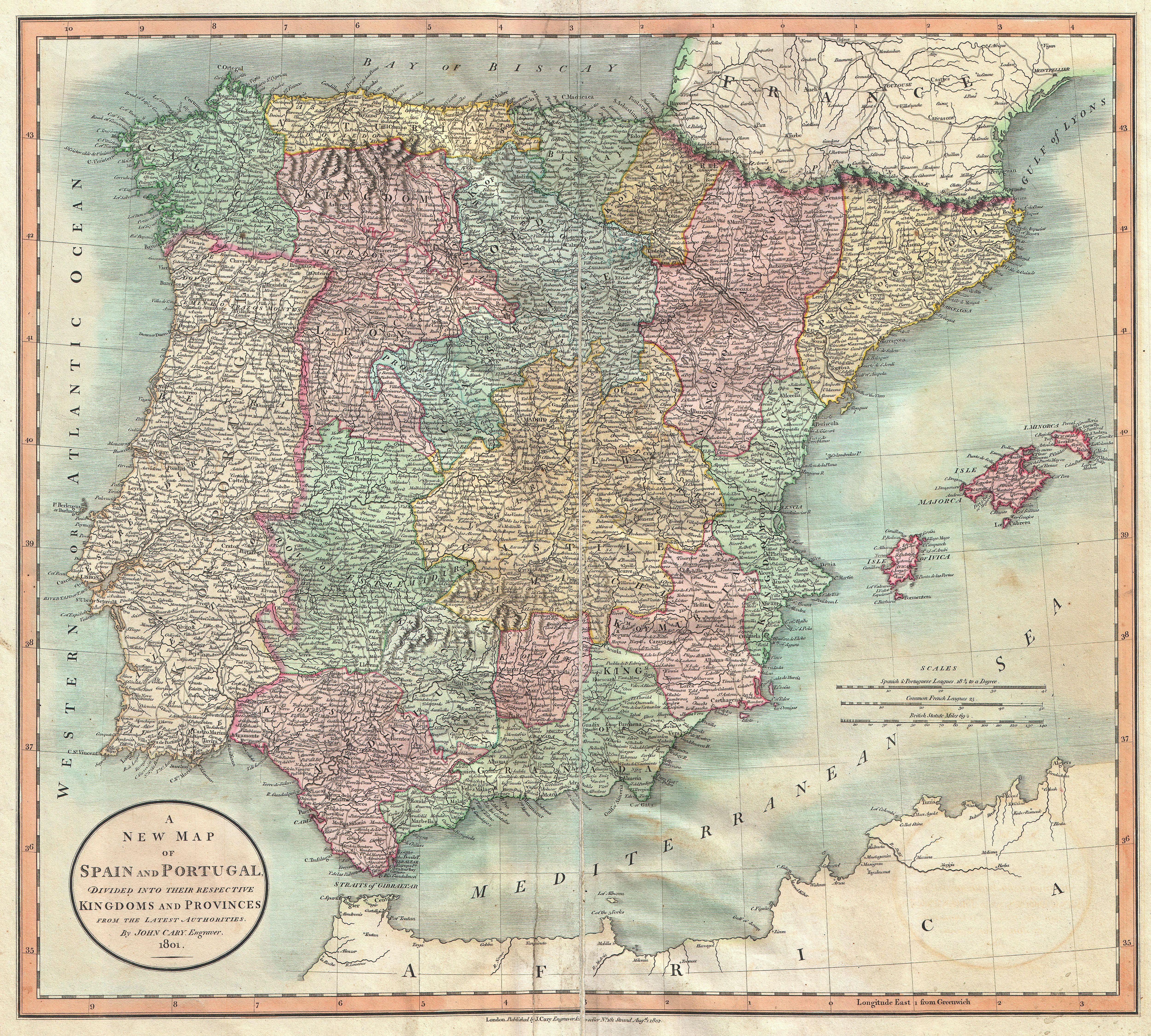 An extremely attractive example of John Cary’s 1801 map of Spain and Portugal. Consists of the entire region of Iberia including the islands of Minorca, Majorca and Ibiza, parts of northern Africa, and Parts of France. Highly detailed with color coding according to region. All in all, one of the most interesting and attractive atlas maps Iberia to appear in first years of the 19th century. Prepared in 1801 by John Cary for issue in his magnificent 1808 New Universal Atlas .